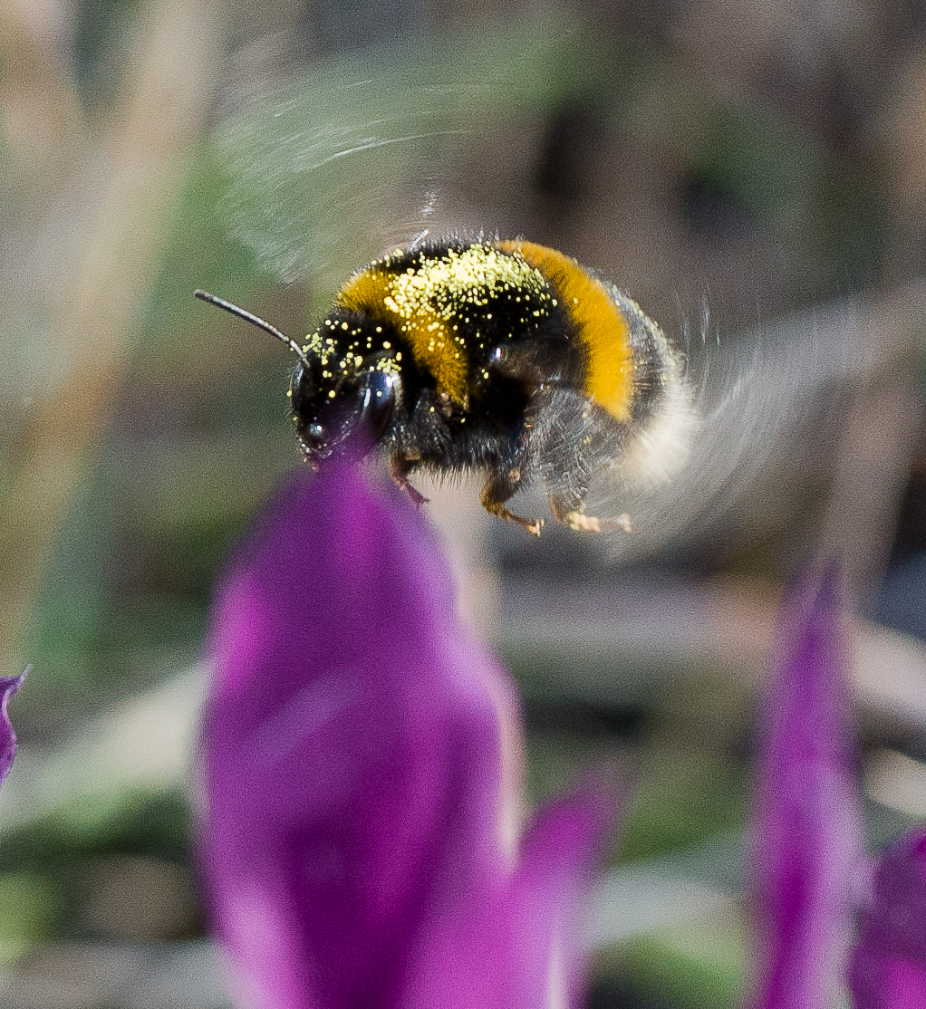 Garden bumblebee (Bombus hortorum, Linneæus, 1761) photographed in Täby, Stockholm County, Sweden